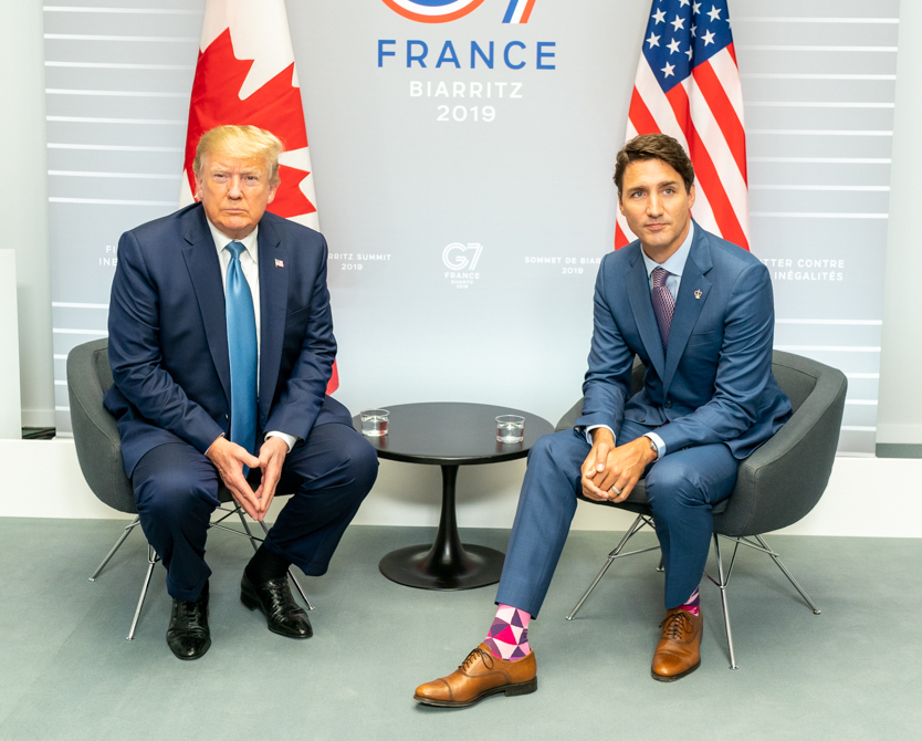 President Donald J. Trump and Prime Minister of Canada Justin Trudeau, joined by their delegation members, participate in a bilateral meeting at the Centre de Congrés Bellevue Sunday, Aug. 25, 2019, in Biarritz, France, site of the G7 Summit.